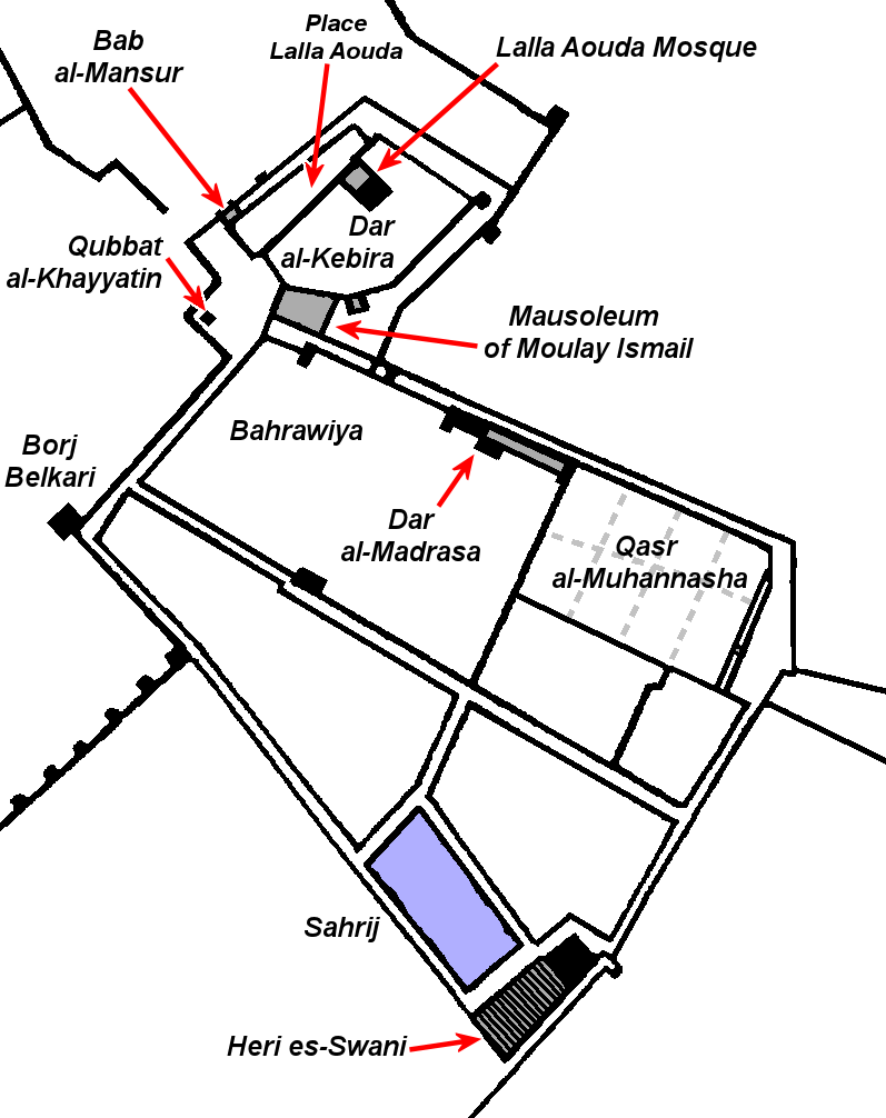 Map of the northern part of the Kasbah or Imperial City of Moulay Ismail. Map is based on the maps drawn by Marianne Barrucand in her 1980 book "L'architecture de la Qasba de Moulay Ismaïl à Meknès" and subsequently re-published or reused in other works.